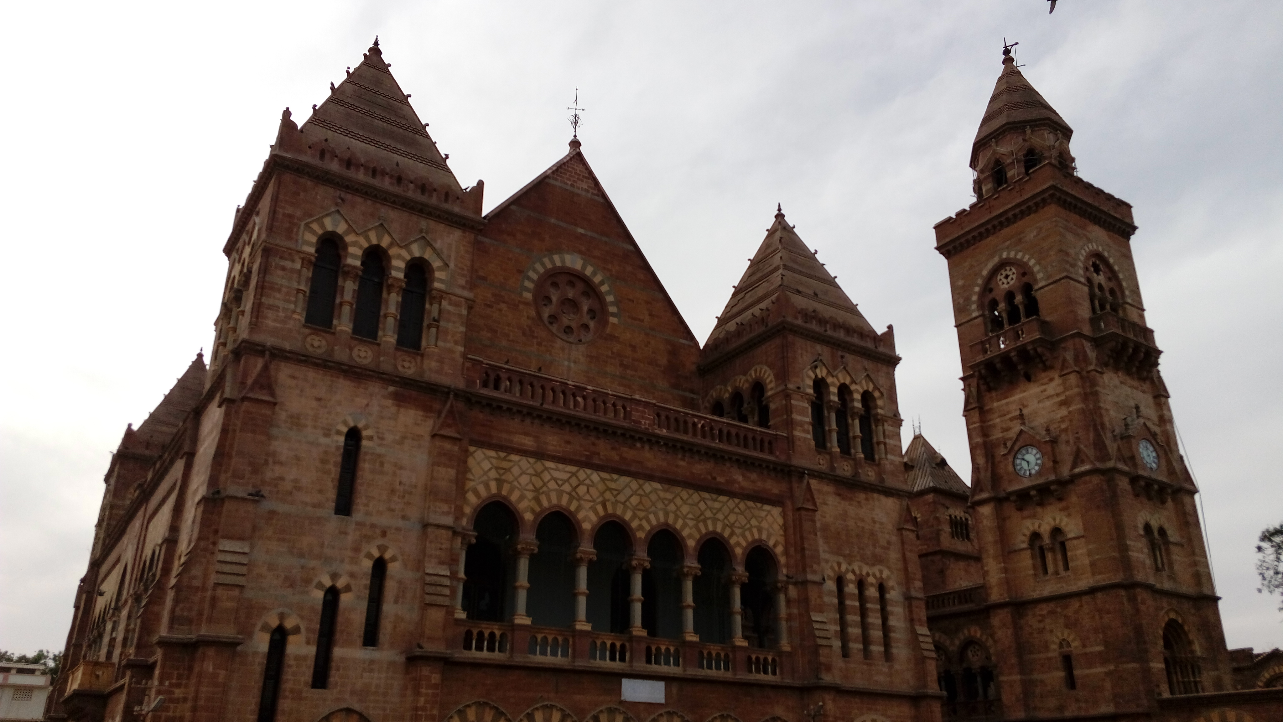 Pragmahal, a palace of Cutch State rulers, in Bhuj, Kutch, Gujarat, India